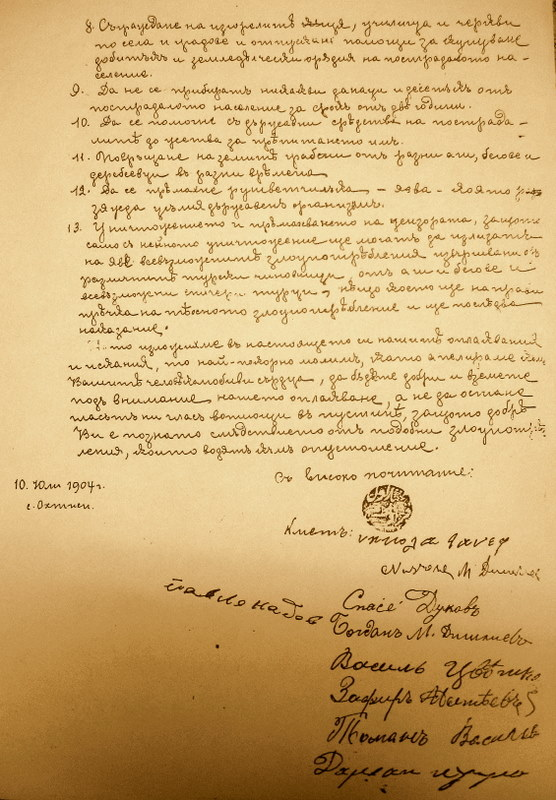 A written complaint of the people of Oktisi to the representative of the European powers in Ohrid about the grave position of the population after the Ilinden Uprising.